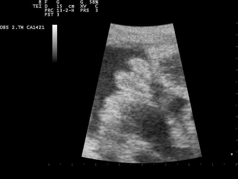 Medical ultrasound image. Provided as-is. Please feel free to categorise, add description, crop.